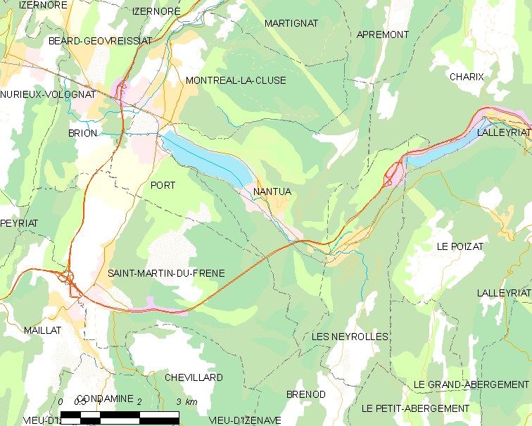 Map of French commune: Nantua Map commune FR insee code 01269.png